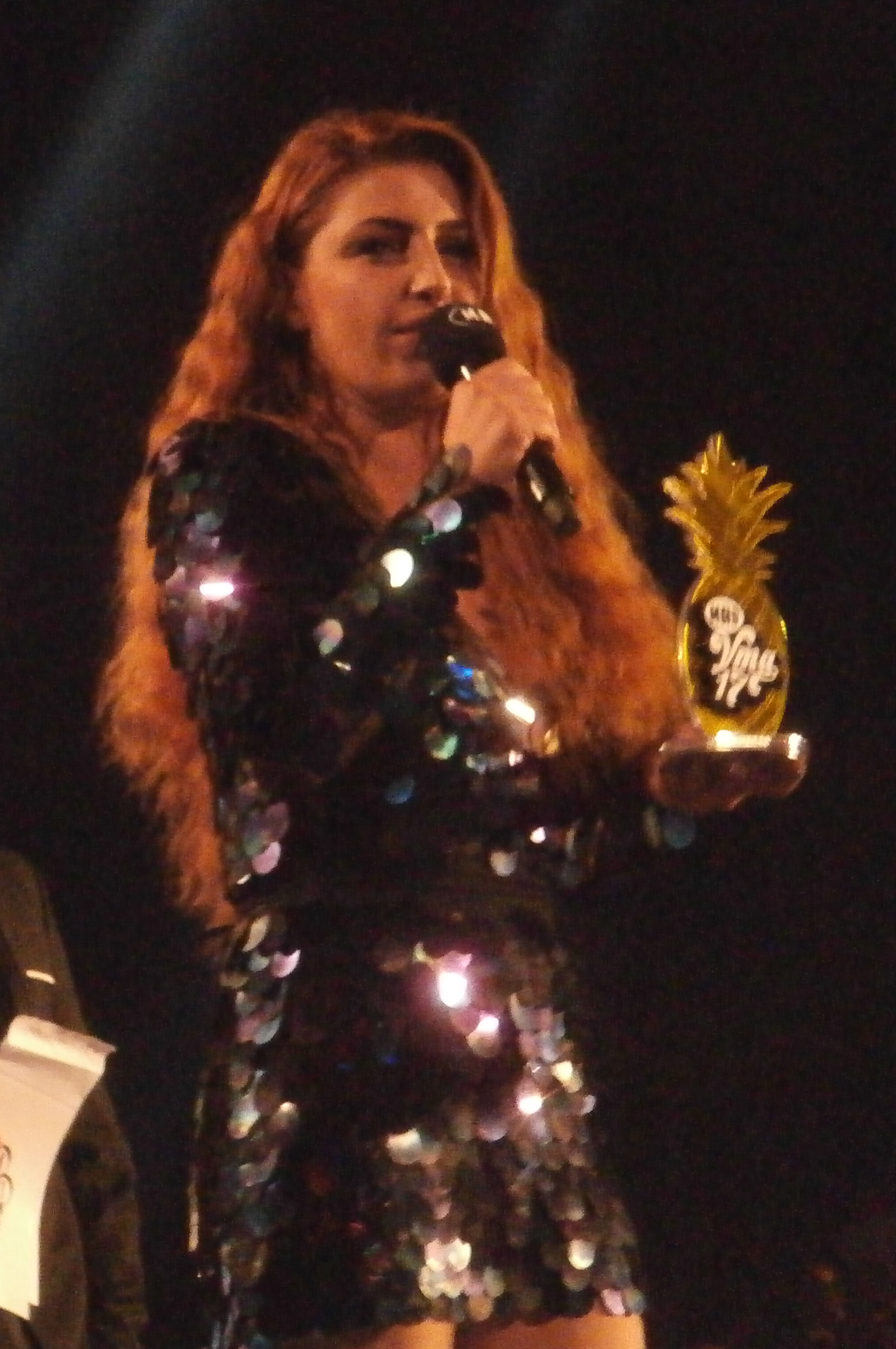 Elena Paparizou receiving her award at MAD Video Music Awards 2017. With 24 VMA awards she was won more than any other artist.